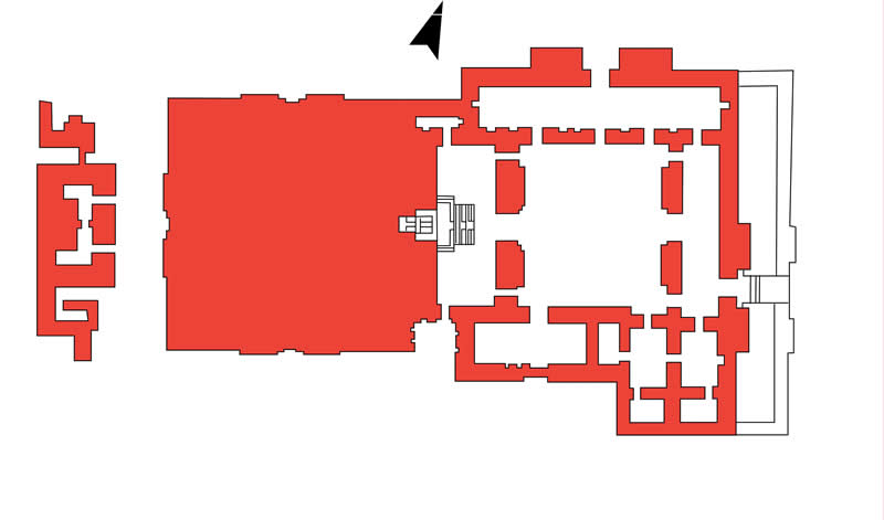 Plan of the Ashur temple at Kar Tukulti Ninurya; redrawn from Eikhoff, Kar Tukulti Ninurya, fig. 8